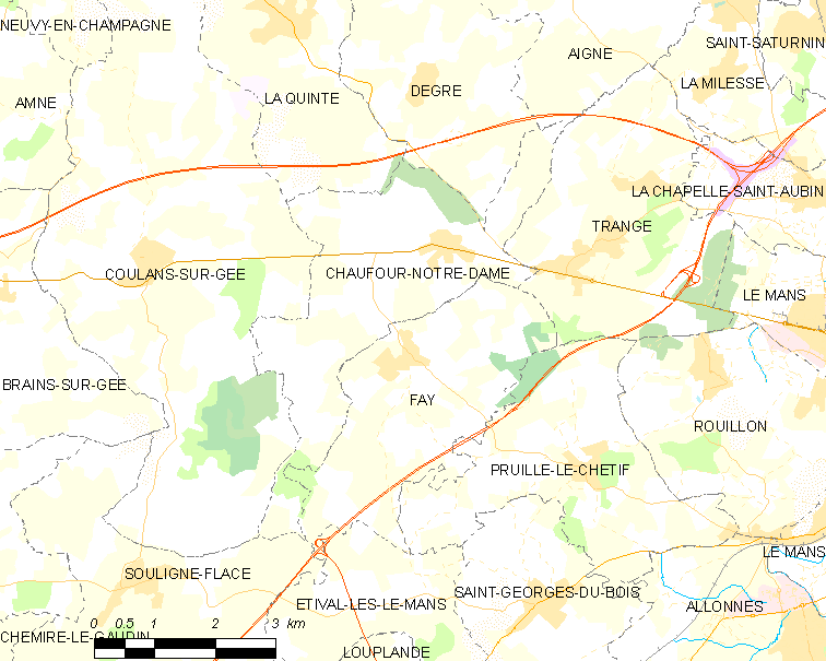 Map of French municipality